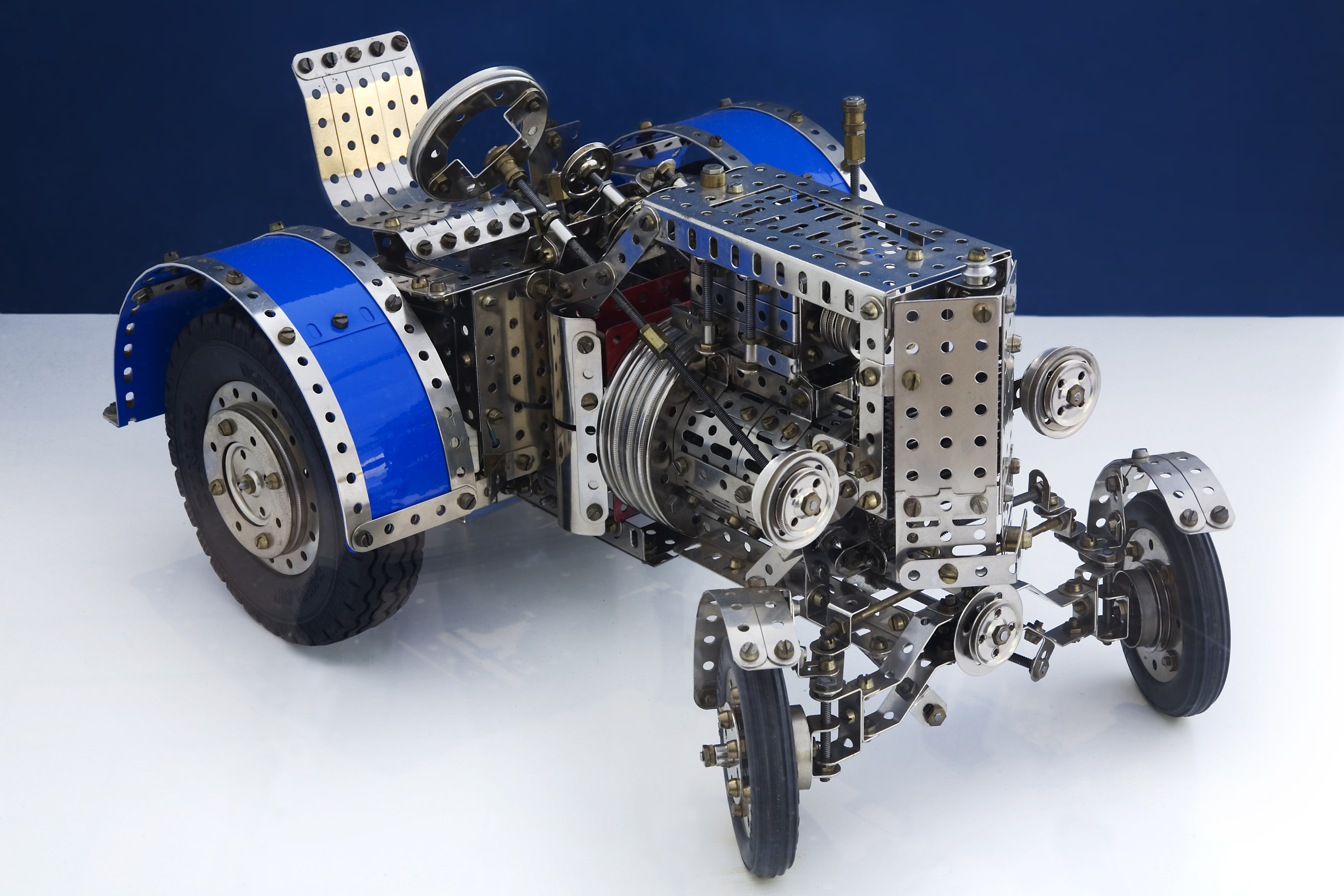 Stabil Meccano tractor model